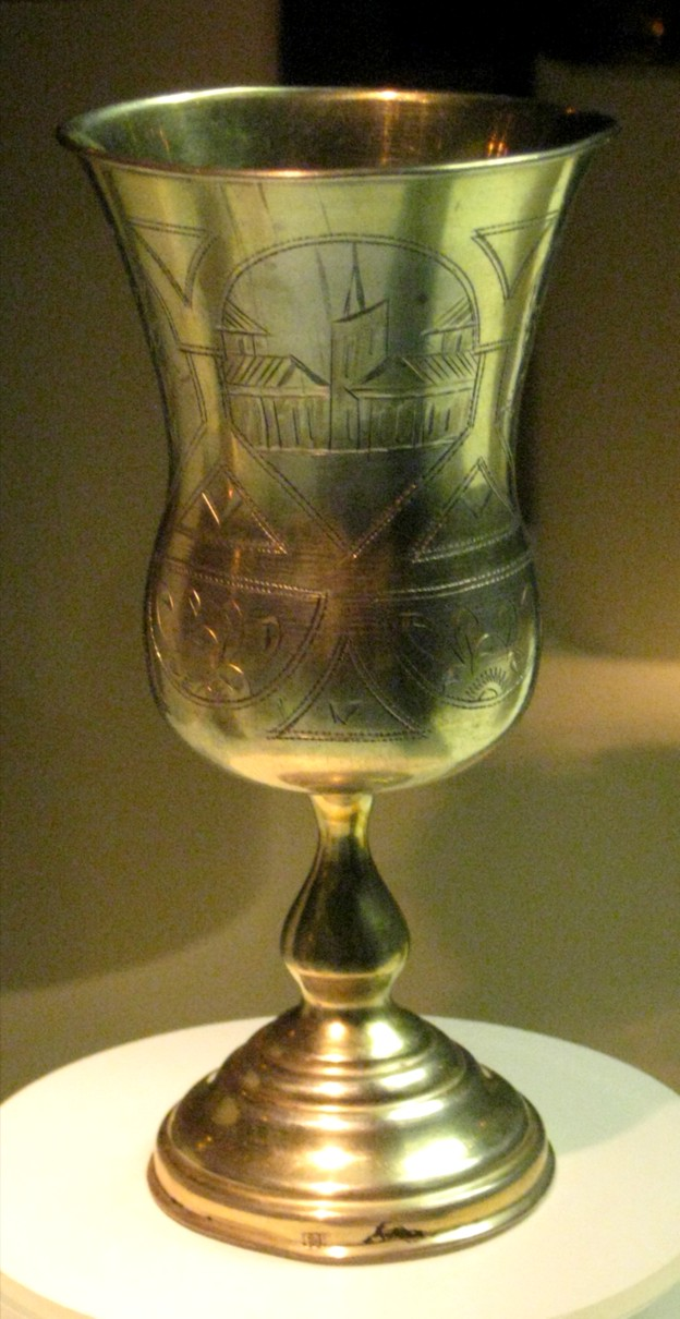 glass of wine for a Kiddush